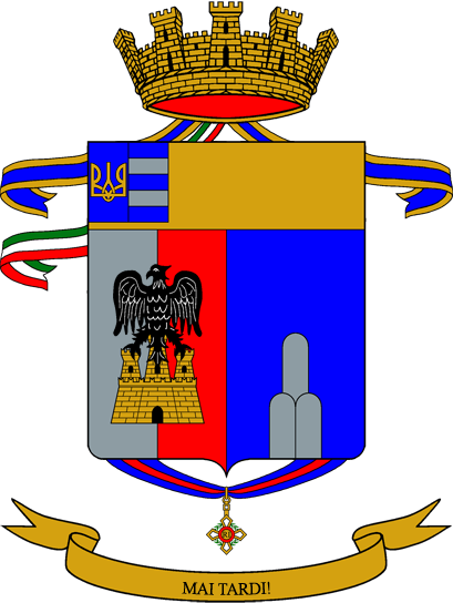 Coat of Arms of the "Tirano" Alpini Battalion; Italian Army.